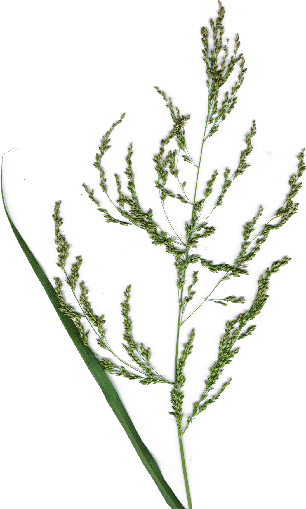 Panicum antidotale (plant). Location: Maui, Kawililipoa Kihei